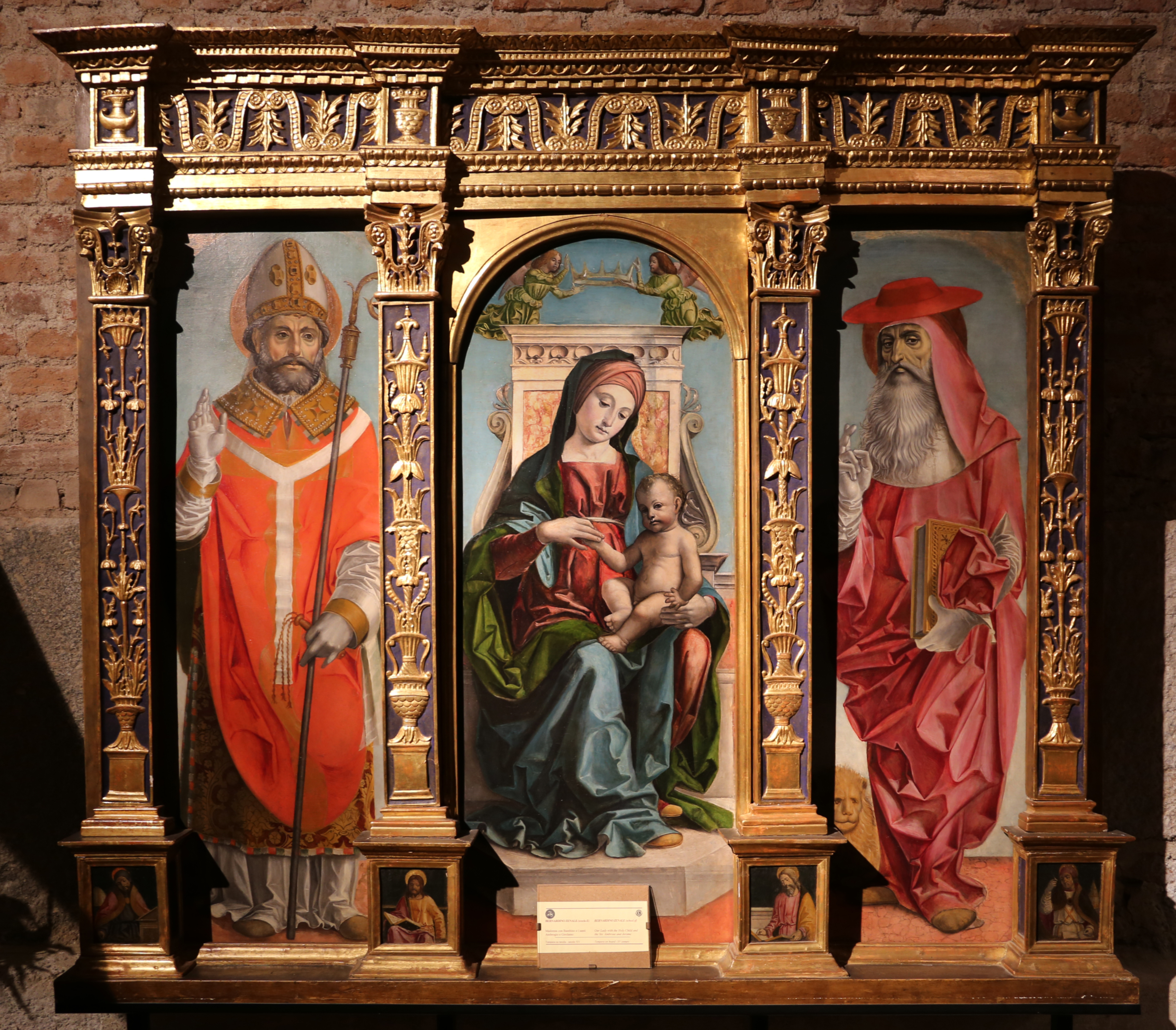 Sant'Ambrogio (Milan) - Tesoro